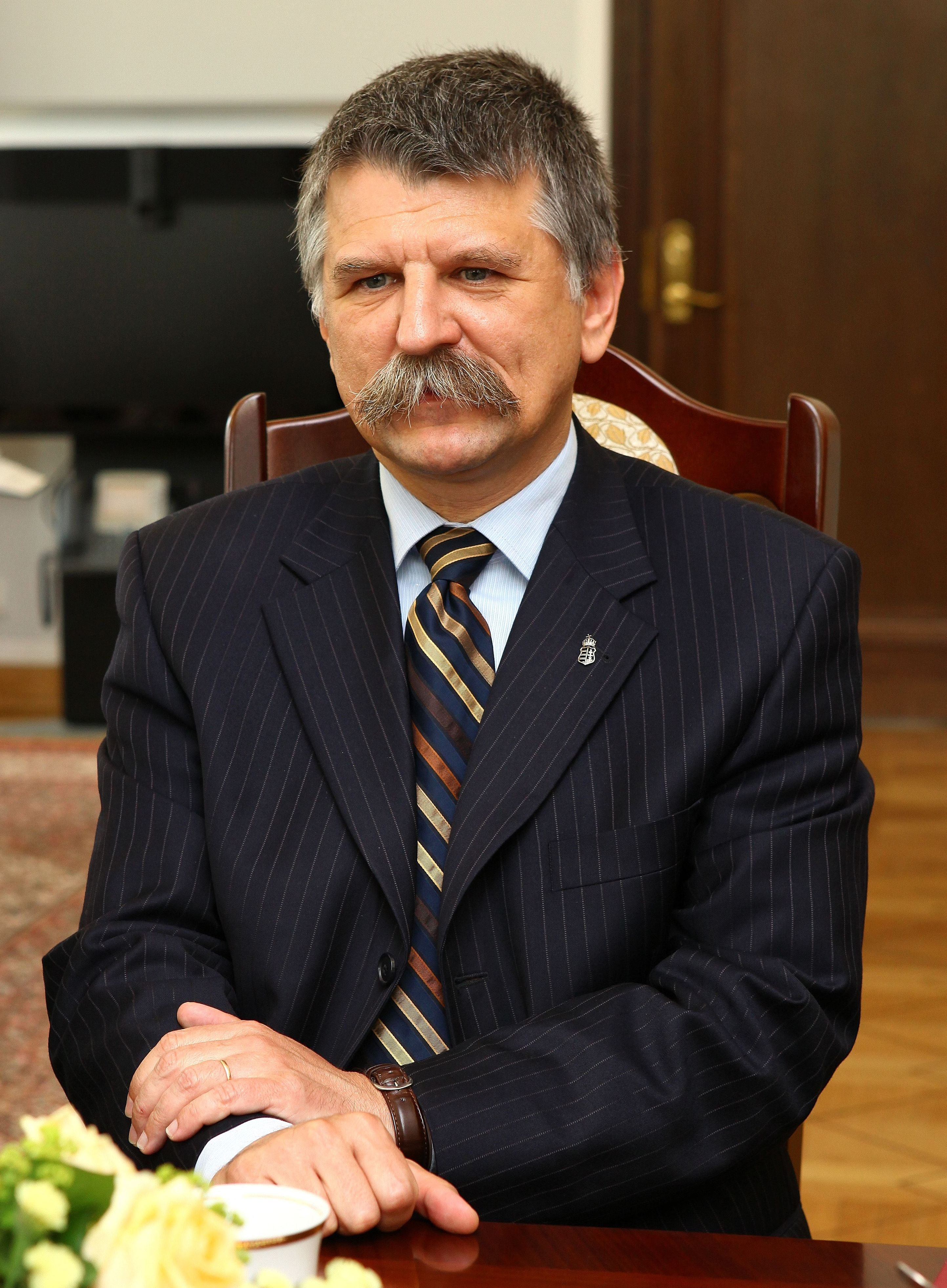 Speaker of the National Assembly of Hungary László Kövér in the Polish Senate